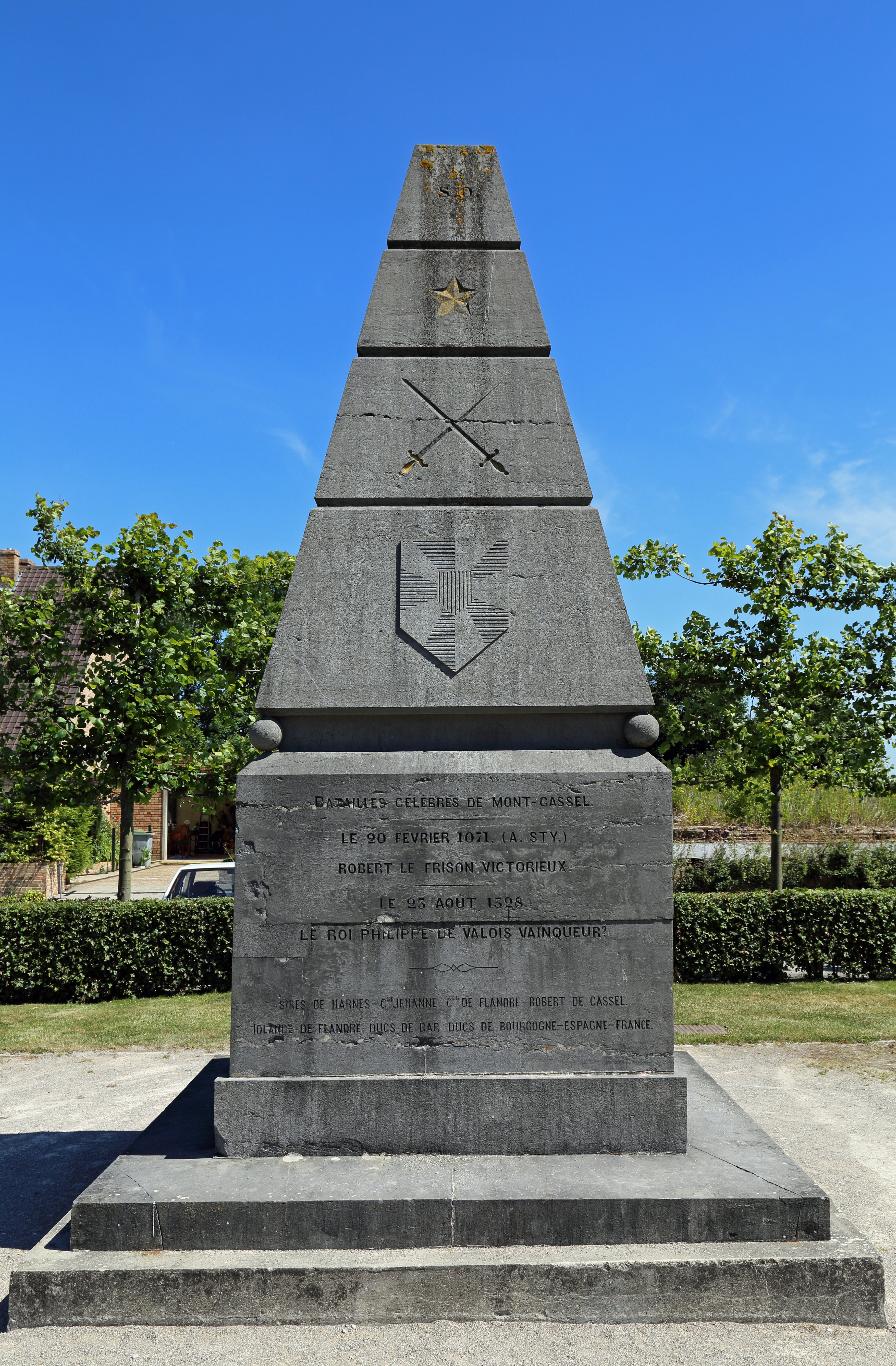 Cassel (département du Nord, France): memorial of the three battles of Cassel